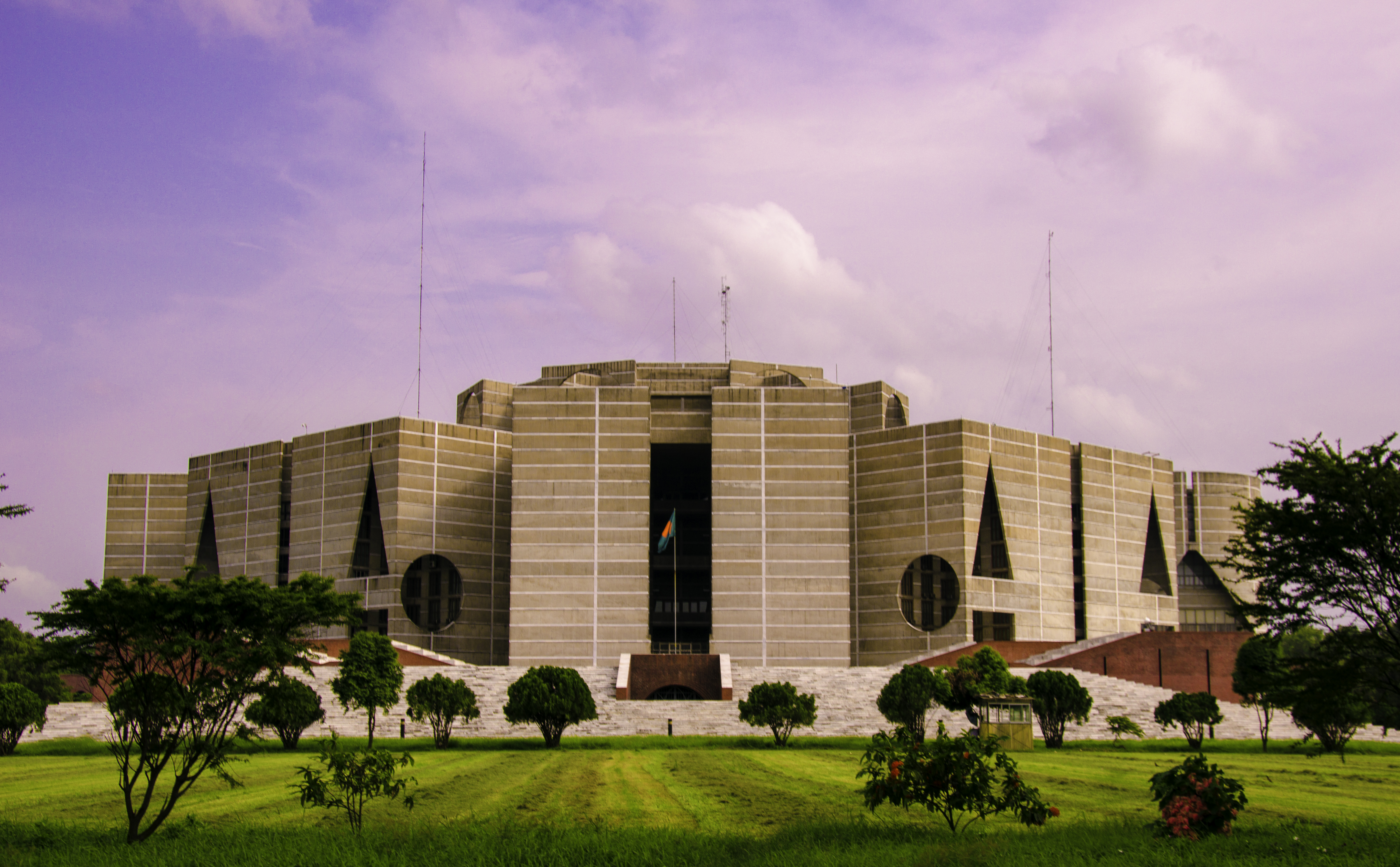 Jatiyo Sangsad Bhaban, Bangladesh.